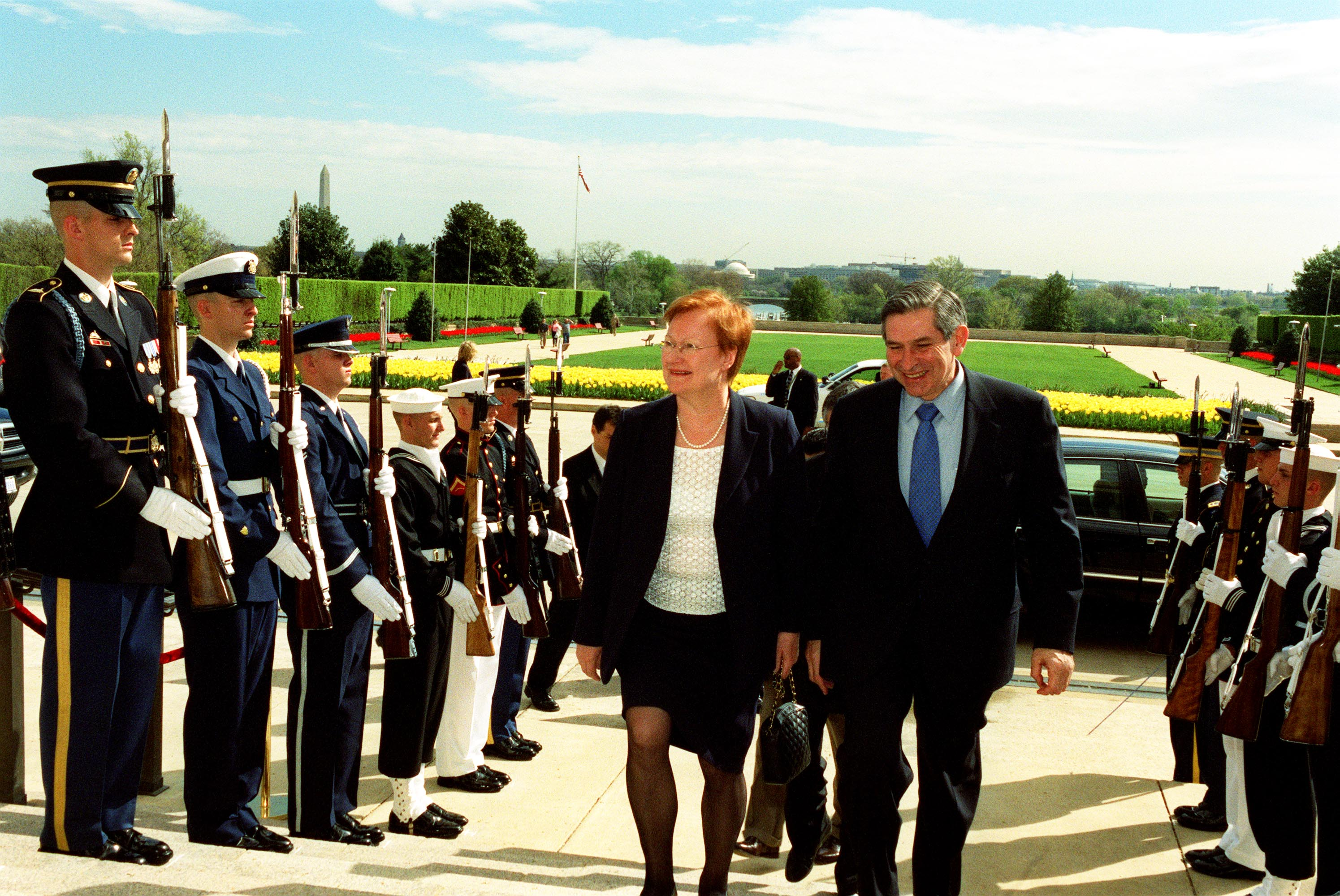 Finnish President Tarja Halonen is escorted through an honor cordon and into the Pentagon by Deputy Secretary of Defense Paul Wolfowitz on April 15, 2002.